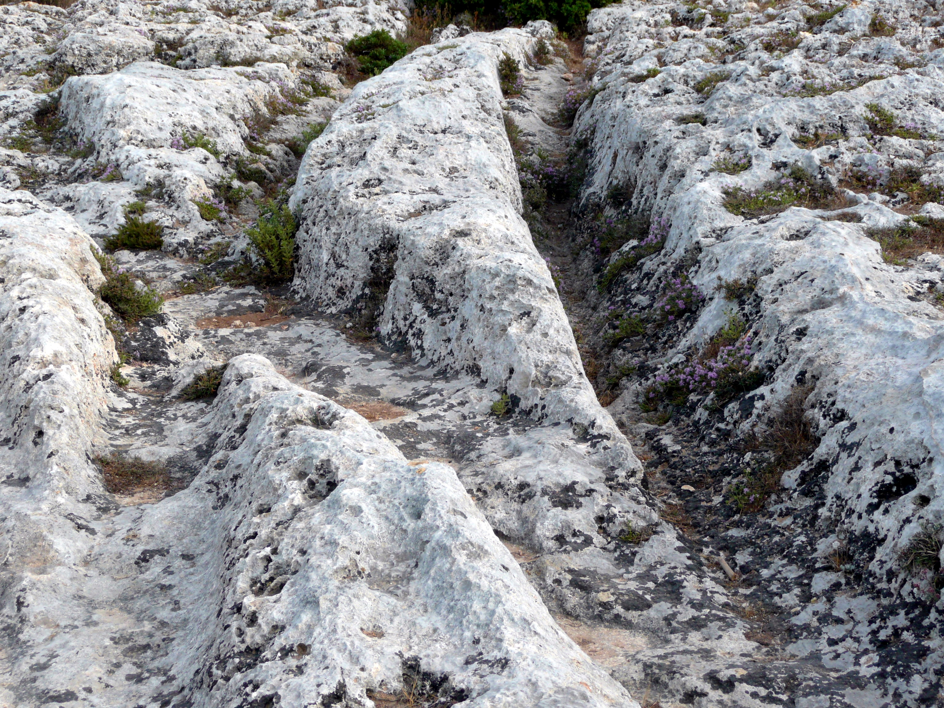 Cart Ruts in Misrah Ghar il-Kbir, Malta